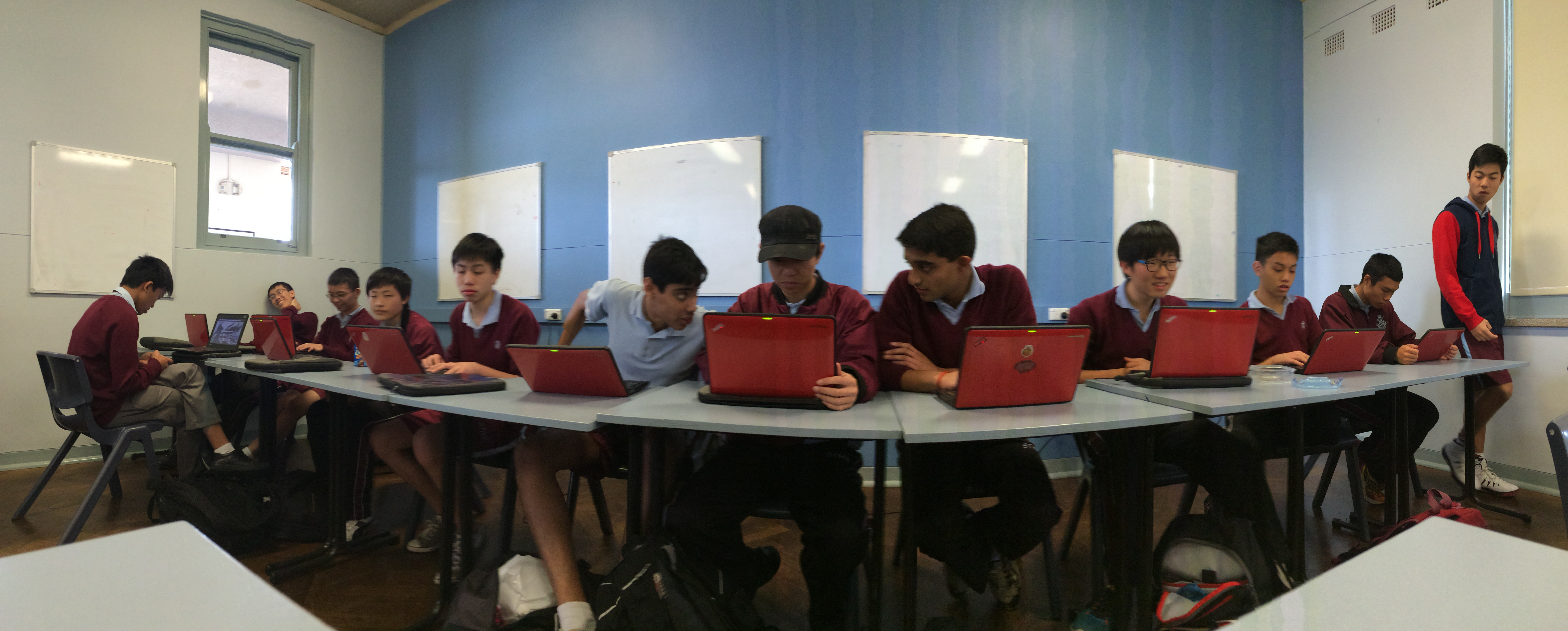 A panoramic shot of students at Sydney Technical High School enjoying a free period on a Wednesday afternoon. Because of wet weather, normal sport activities usually scheduled for the day were cancelled. The procedure during a wet weather sport day would instead be to keep students indoors for a free period until the end of the school day at 2:25pm. Here, a group of Year 10 students decide to spend the free period playing a few matches of Risk of Rain, a roguelike co-op video game which was reaching the height of its popularity at the time.